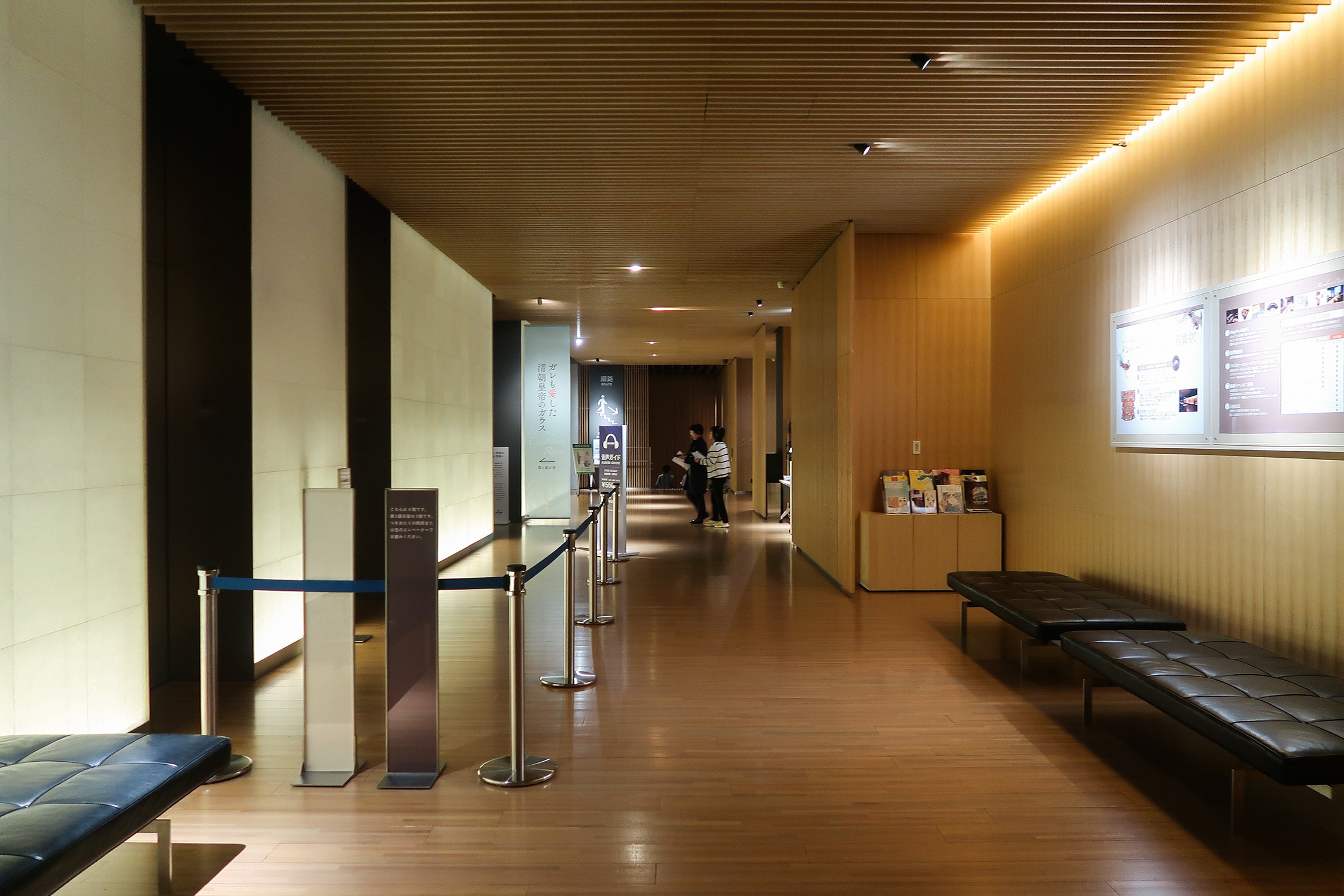 Suntory Museum of Art